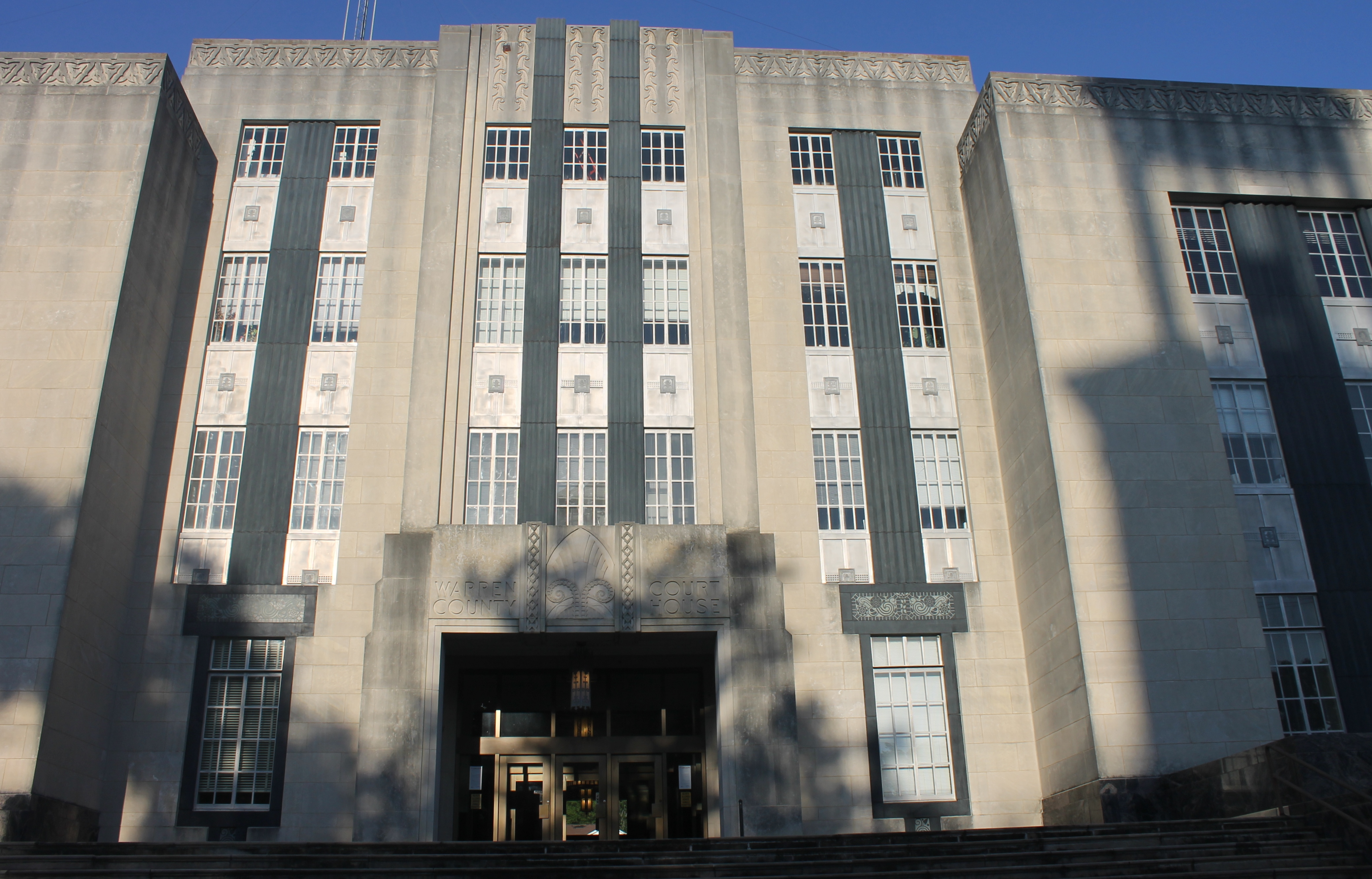 Warren County Courthouse in Vicksburg, MS (built c. 1940)